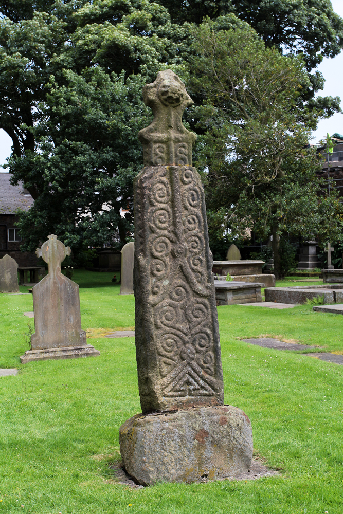 The ancient parish church of St. Mary and All Saints at Whalley in Lancashire. Saxon cross in the churchyard